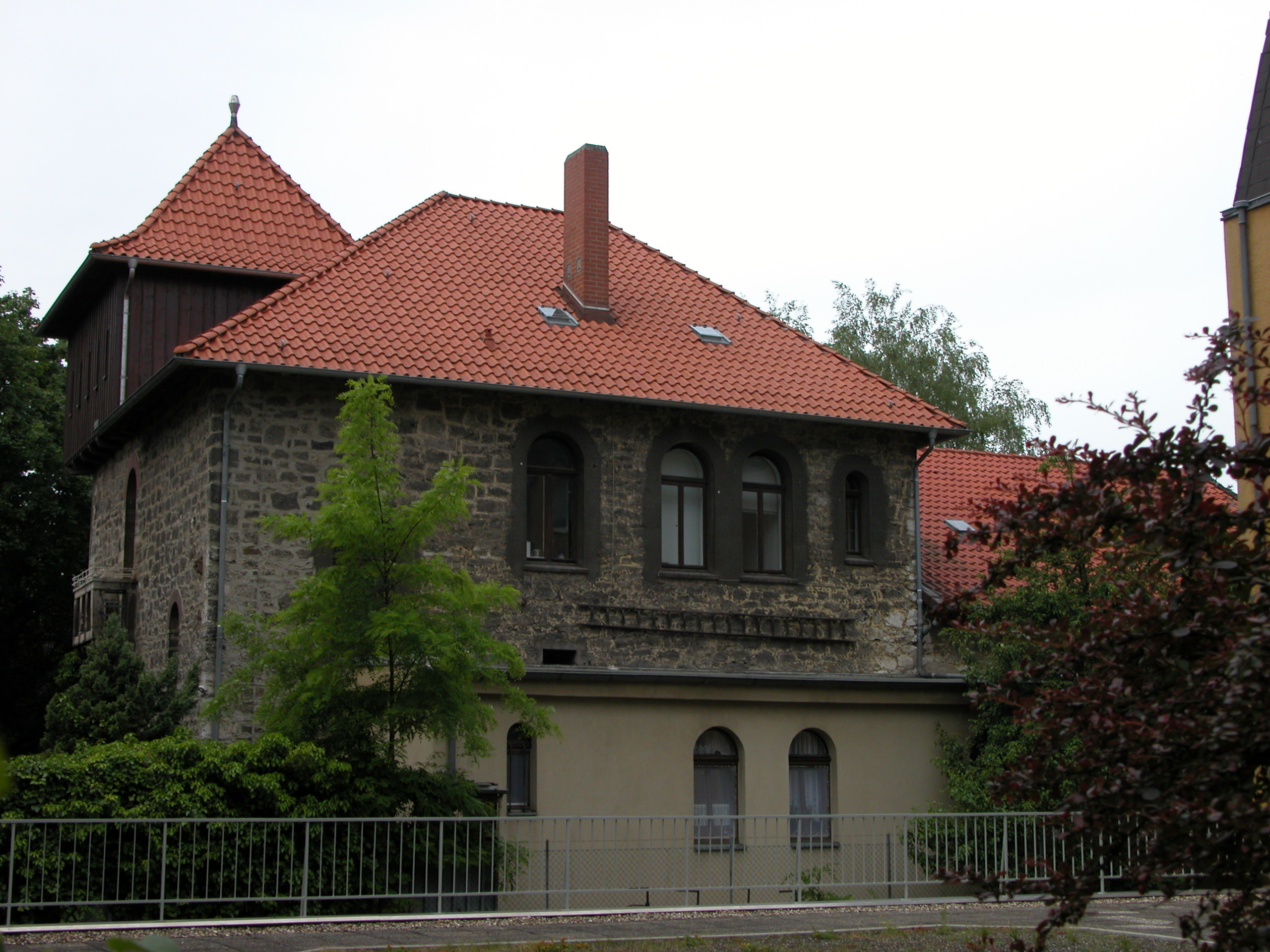 Brunswick, Germany: Okerburg as seen from the east (rear).